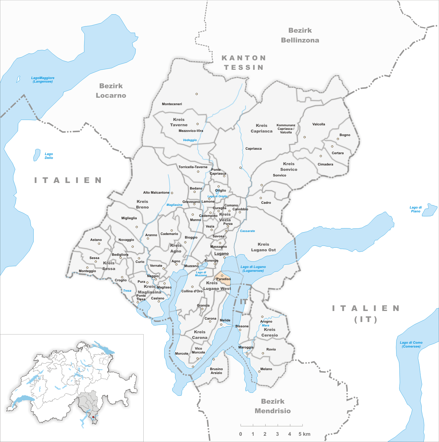 Municipality Paradiso